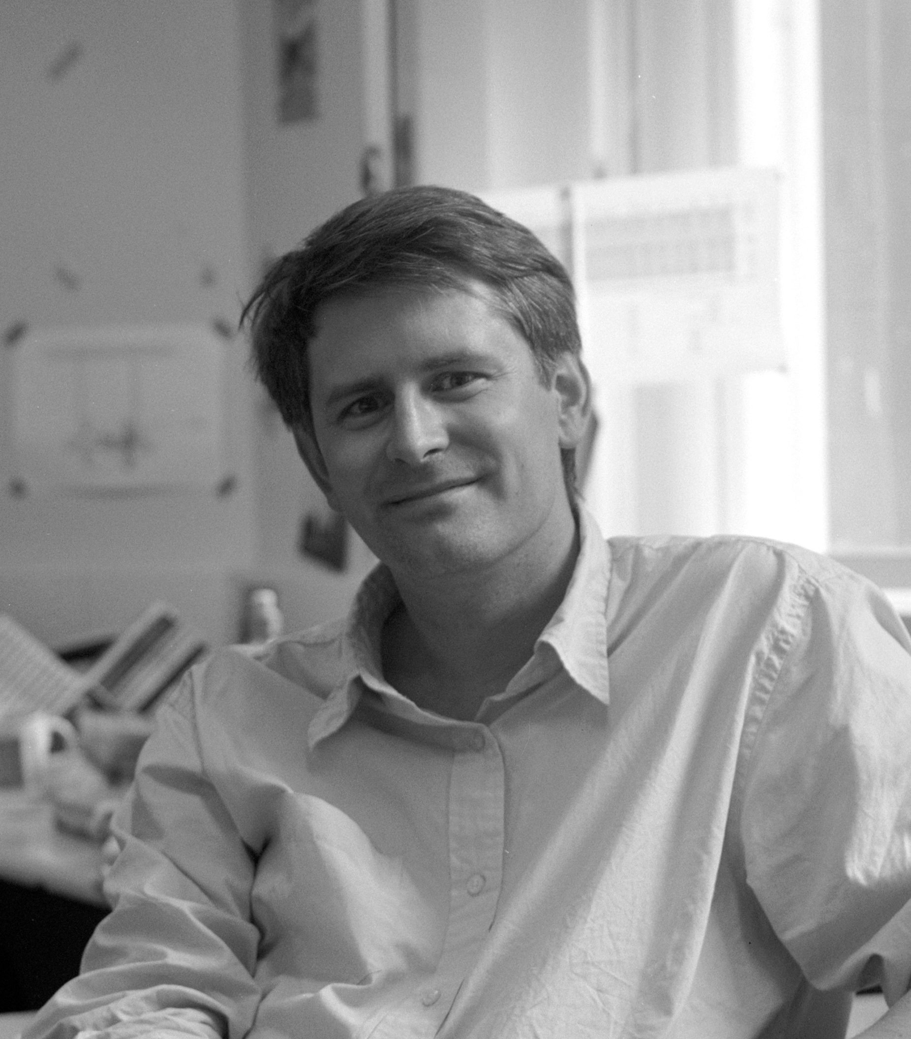 Michael Häusser is Professor of Neuroscience at University College London and a Principal Research Fellow of the Wellcome Trust. He received his PhD from Oxford University under the supervision of Julian Jack. He subsequently worked with Bert Sakmann at the Max Planck Institute for Medical Research in Heidelberg and with Philippe Ascher at the École Normale Supérieure in Paris. He established his own laboratory at UCL in 1997 and became Professor of Neuroscience in 2001. His group is interested in understanding the cellular basis of neural computation in the mammalian brain.